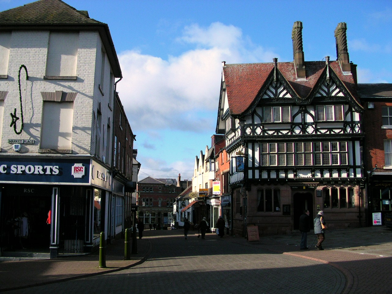 Market place, Leek, Staffordshire, England.